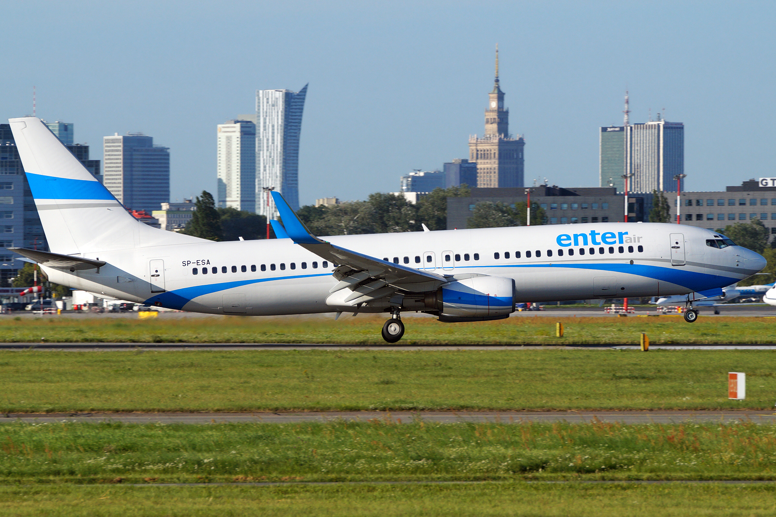 Enter Air's Boeing 737-800 SP-ESA landing at Warsaw Chopin Airport, Poland